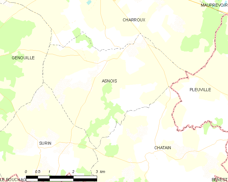 Map of French municipality Asnois